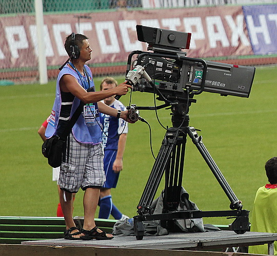 Football camera